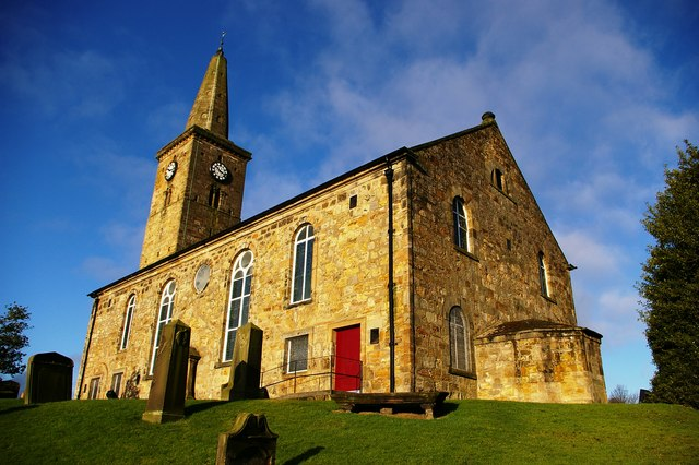 St Drostan's Church, Markinch St Drostan's Church sits prominently in the middle of Markinch.